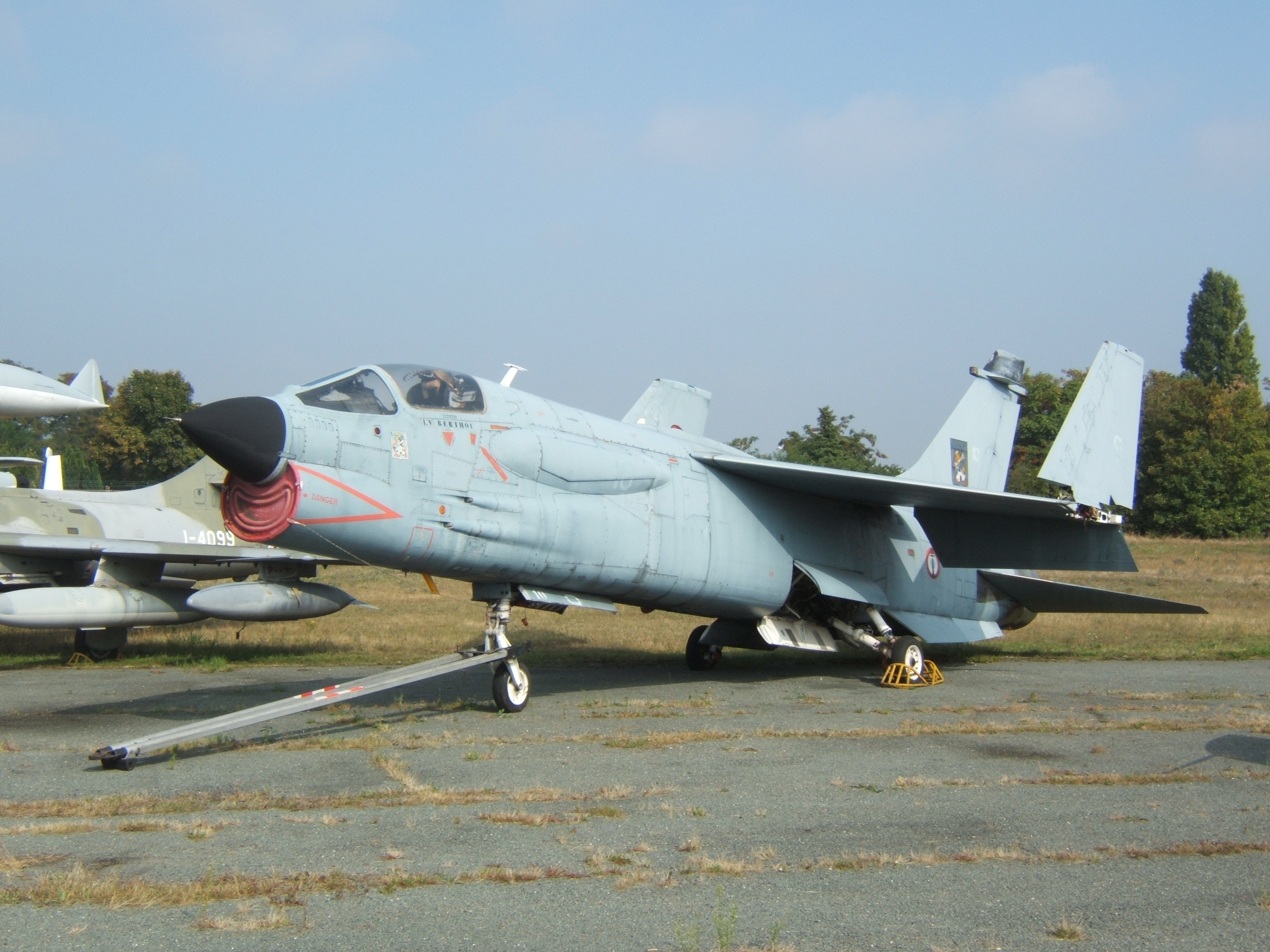 Former French Navy fighter jet seen here in 2009 in stock of Air & Space Museum at Paris-Le Bourget